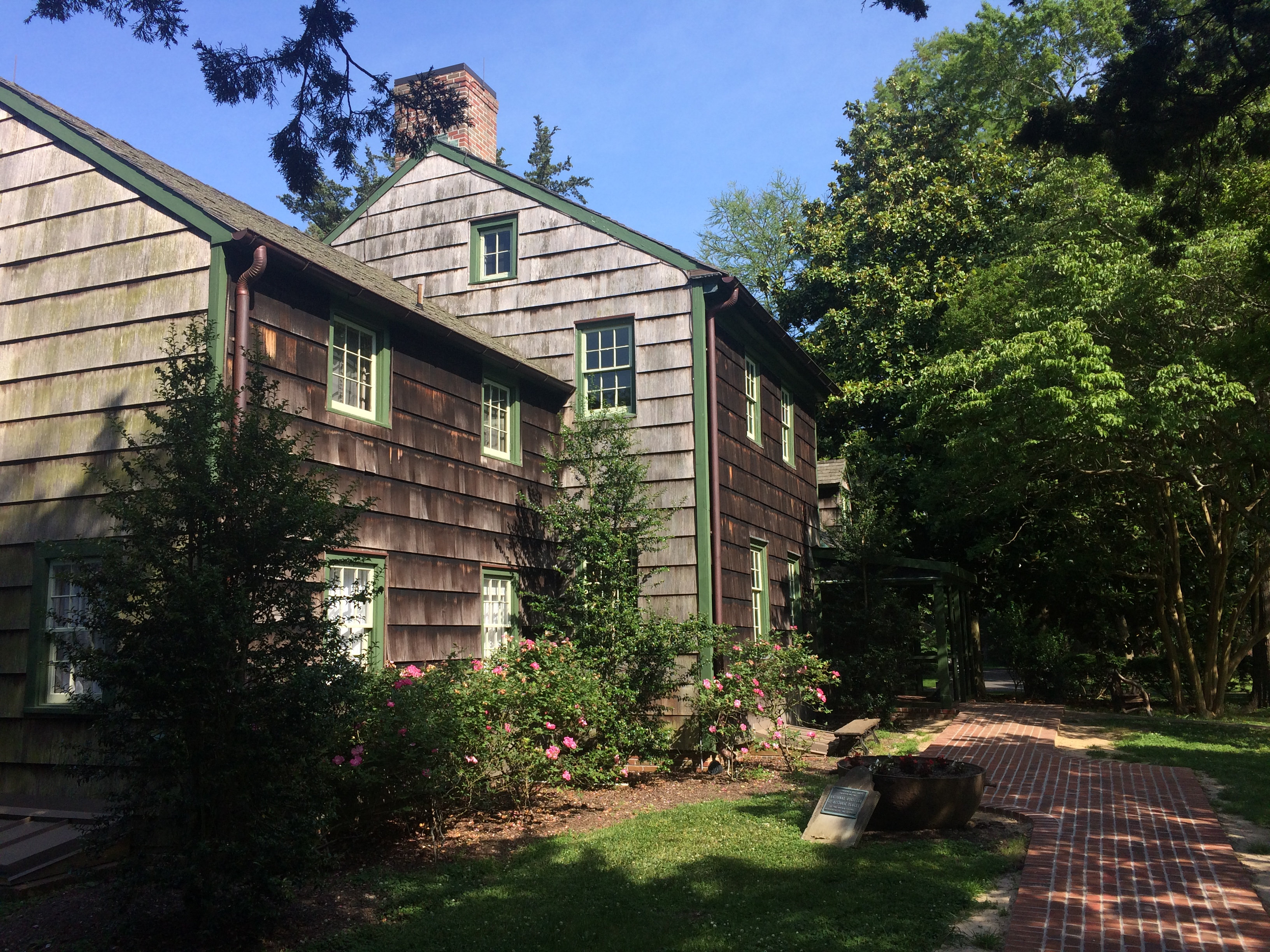 Historic Peter Marsh House in Rehoboth Beach, Delaware. Image taken in June 2020.